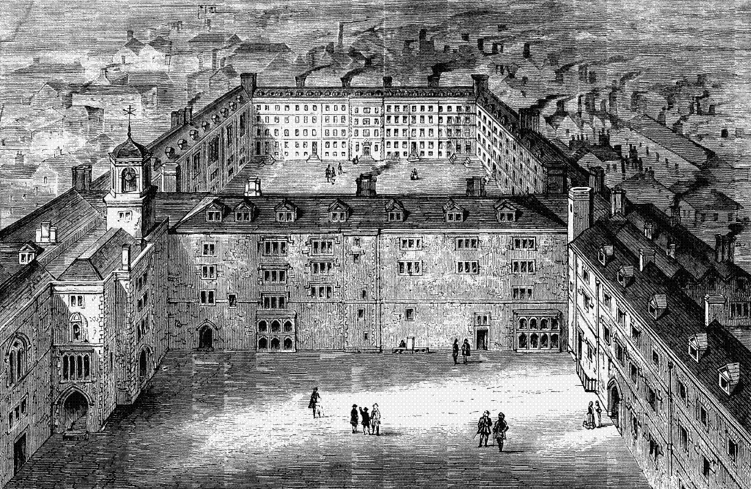 A print of Bridewell Prison as re-built after the Great Fire of London (1666). The prison was rebuilt 1666-7.